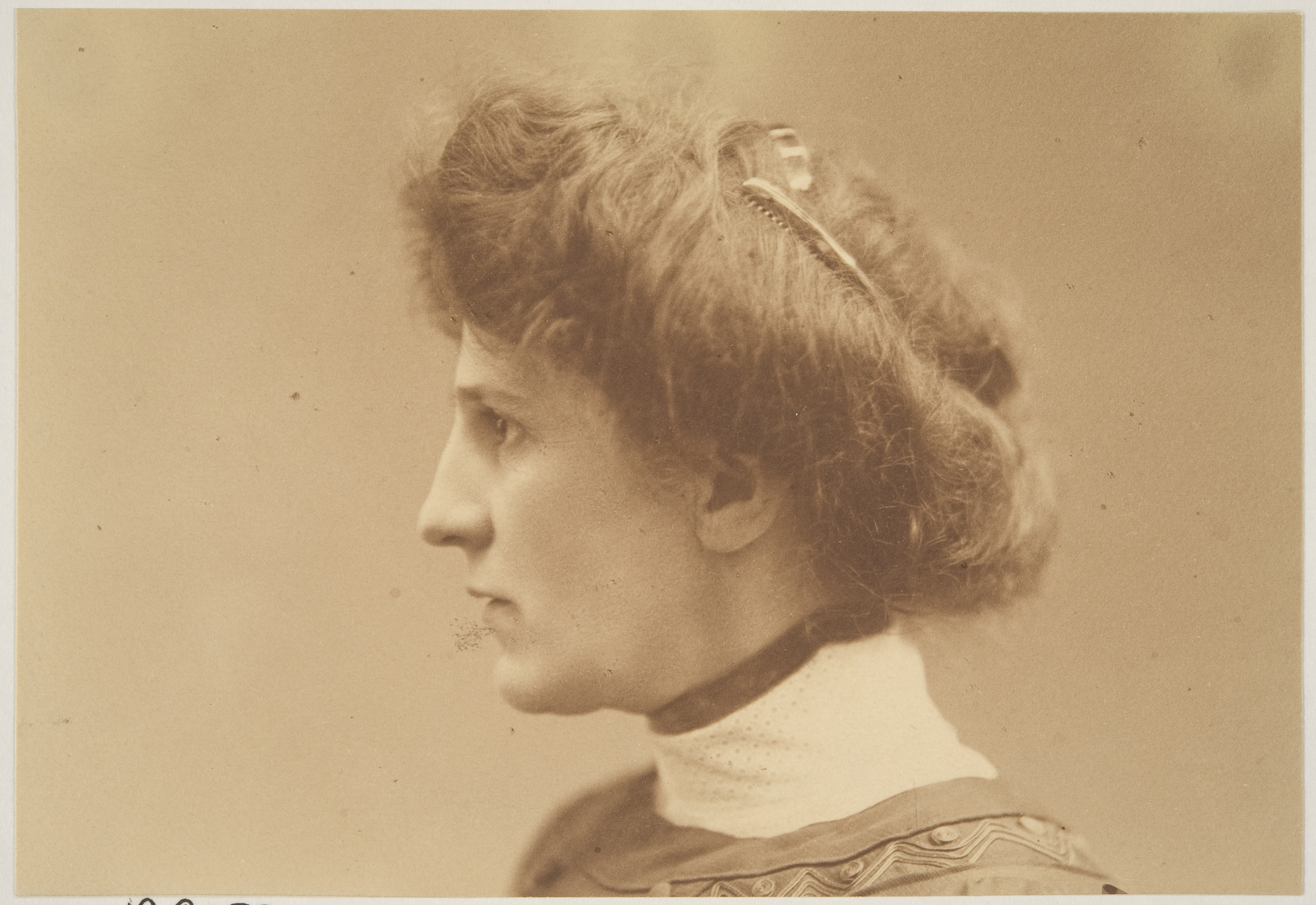 Finnish writer Helmi Krohn